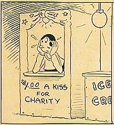 "Something The Matter". "Thimble Theater" newspaper comic by E. C. Segar, 1921.